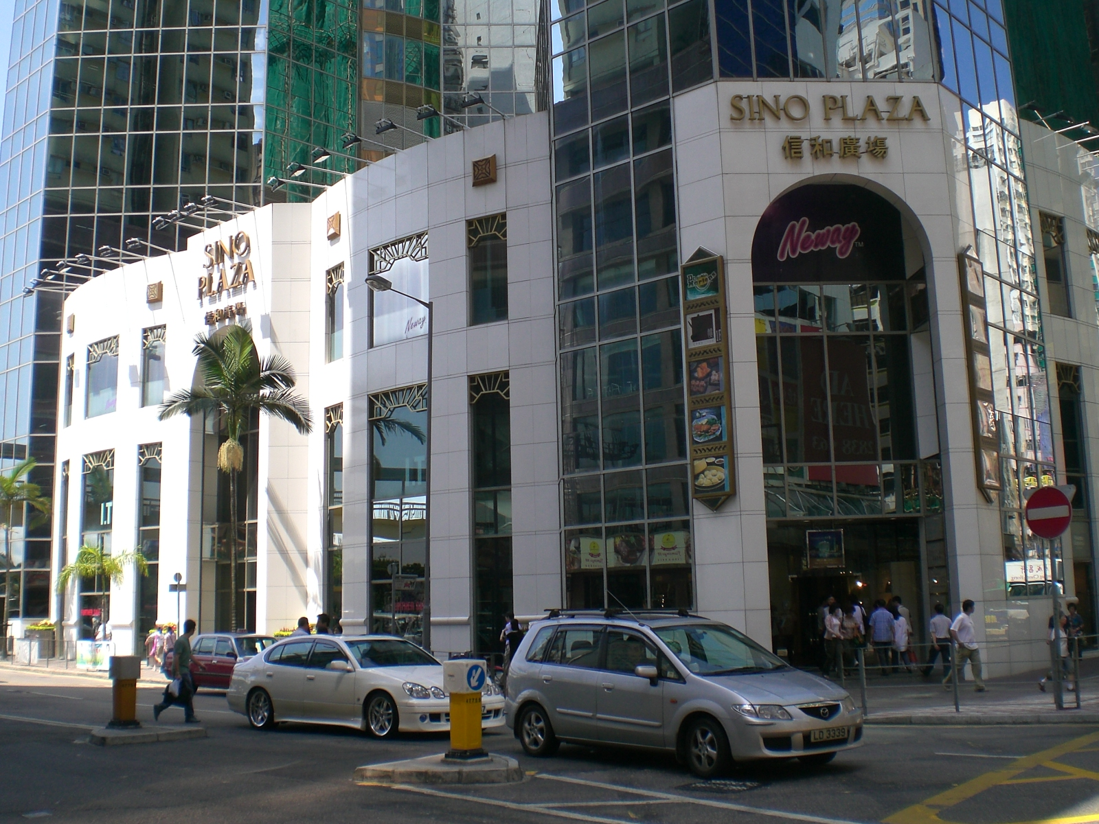 謝斐道 與 波斯富街交界, 位於灣仔區銅鑼灣. Author= RoxRox